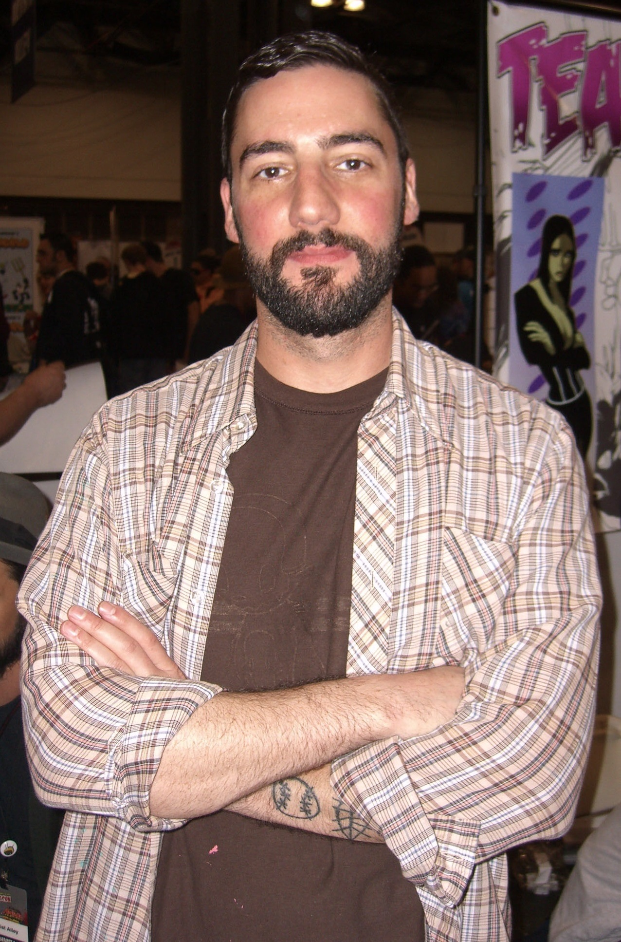 Comic book creator Jim Mahfood at the New York Comic Convention in Manhattan, October 9, 2010. Photo by Luigi Novi. This photo may be used, modified and published for any purpose, only if a easily visible credit to the photographer is placed near the photo in each instance in which it is used. (See licensing information below.) Publication of this photo without this proper attribution constitute copyright infringement. For more information on my photos, you can contact me here.